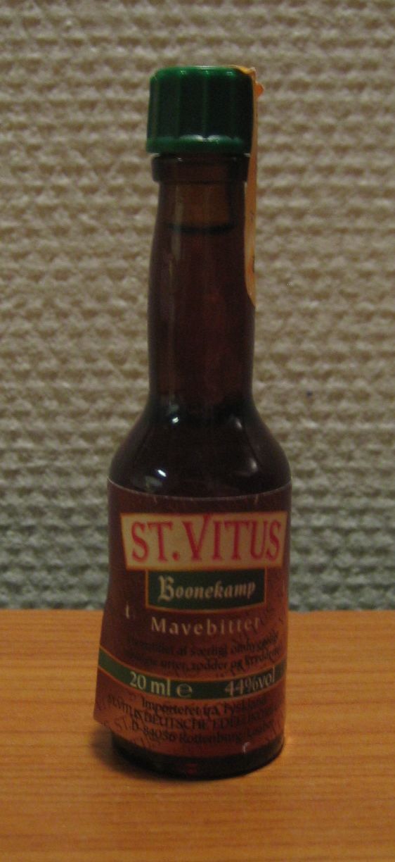 A 2 cl.-bottle of St. Vitus. Taken by myself.